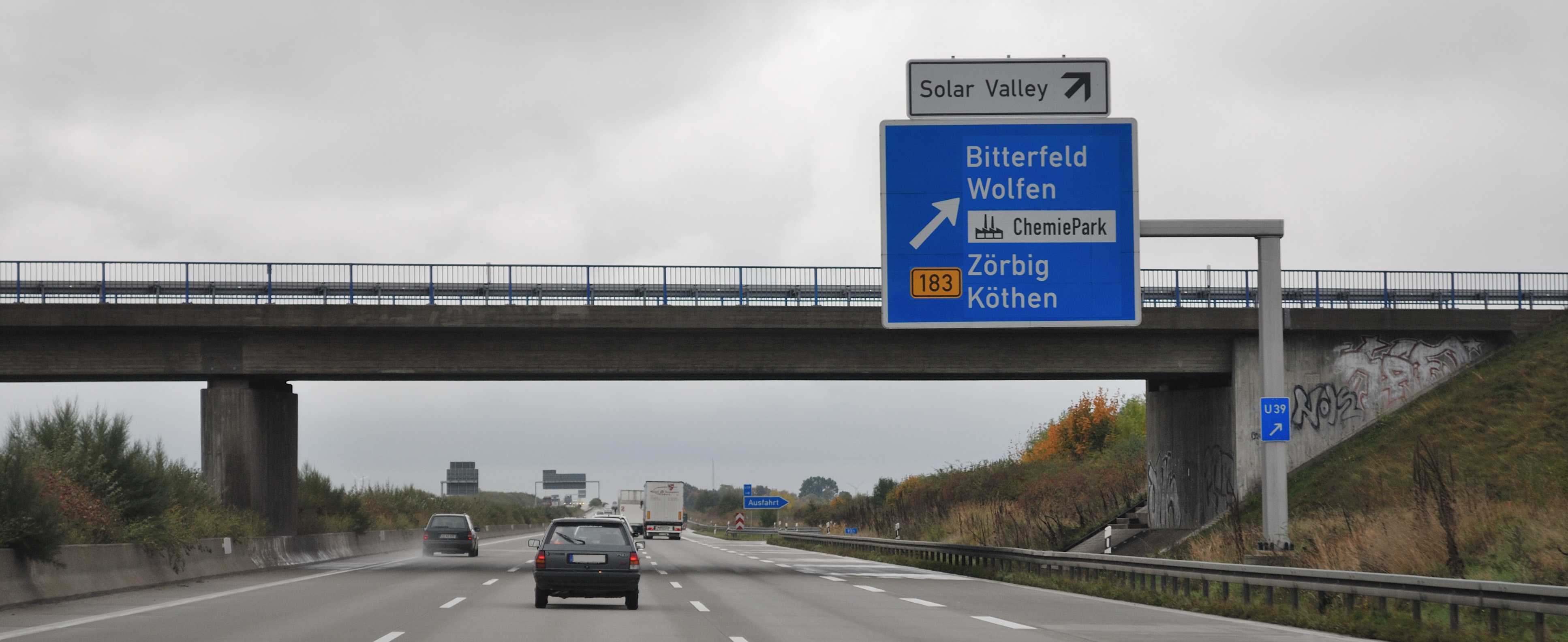 Road sign for the Zörbig exit of A 9; road shot.